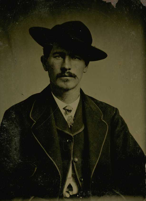 Wyatt Earp in the mid-1870s wearing a business suit.